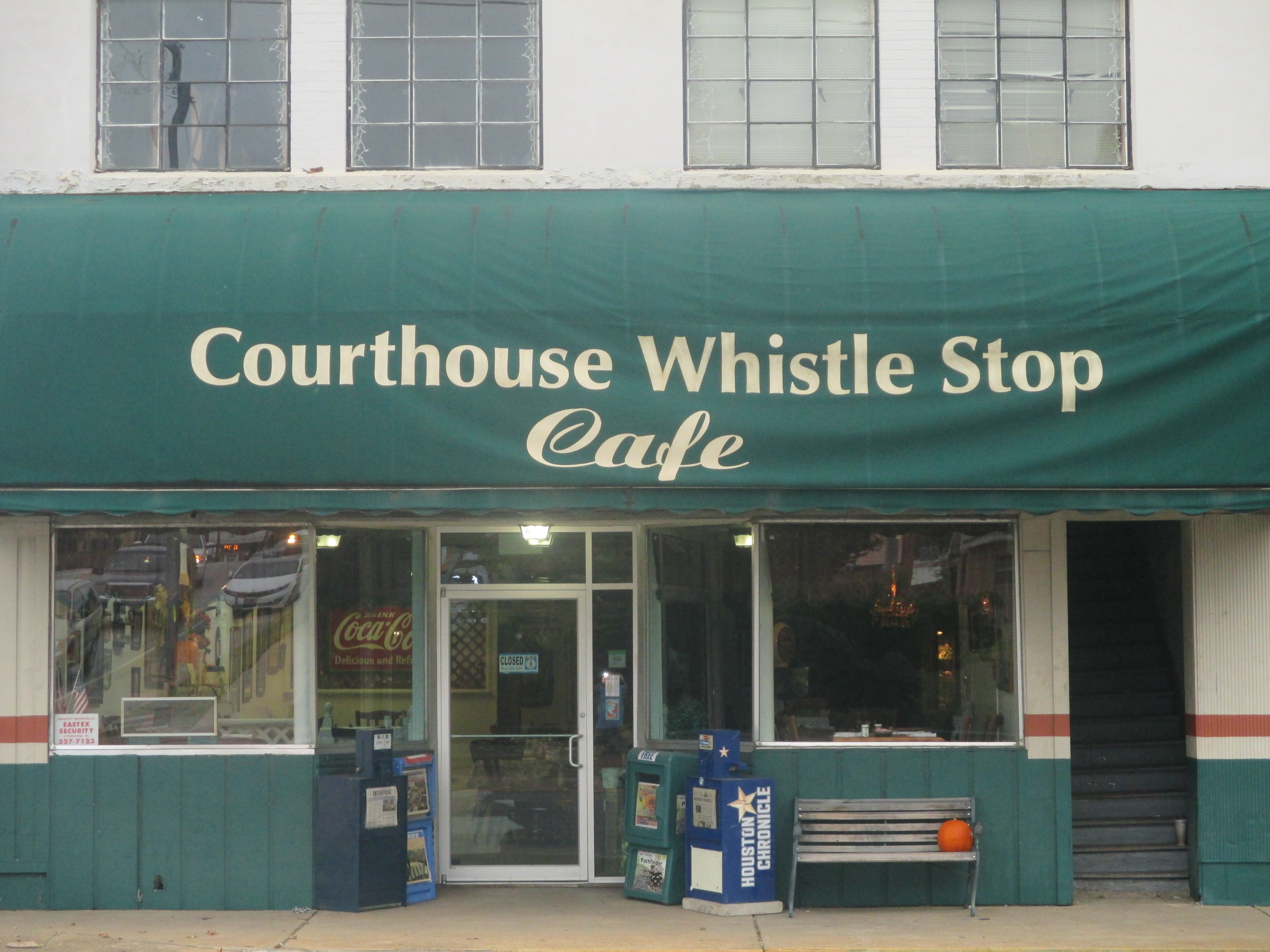 I took photo of Courthouse Whistle Stop Cafe across from the Polk County Courthouse in Livingston, TX, with Canon camera.